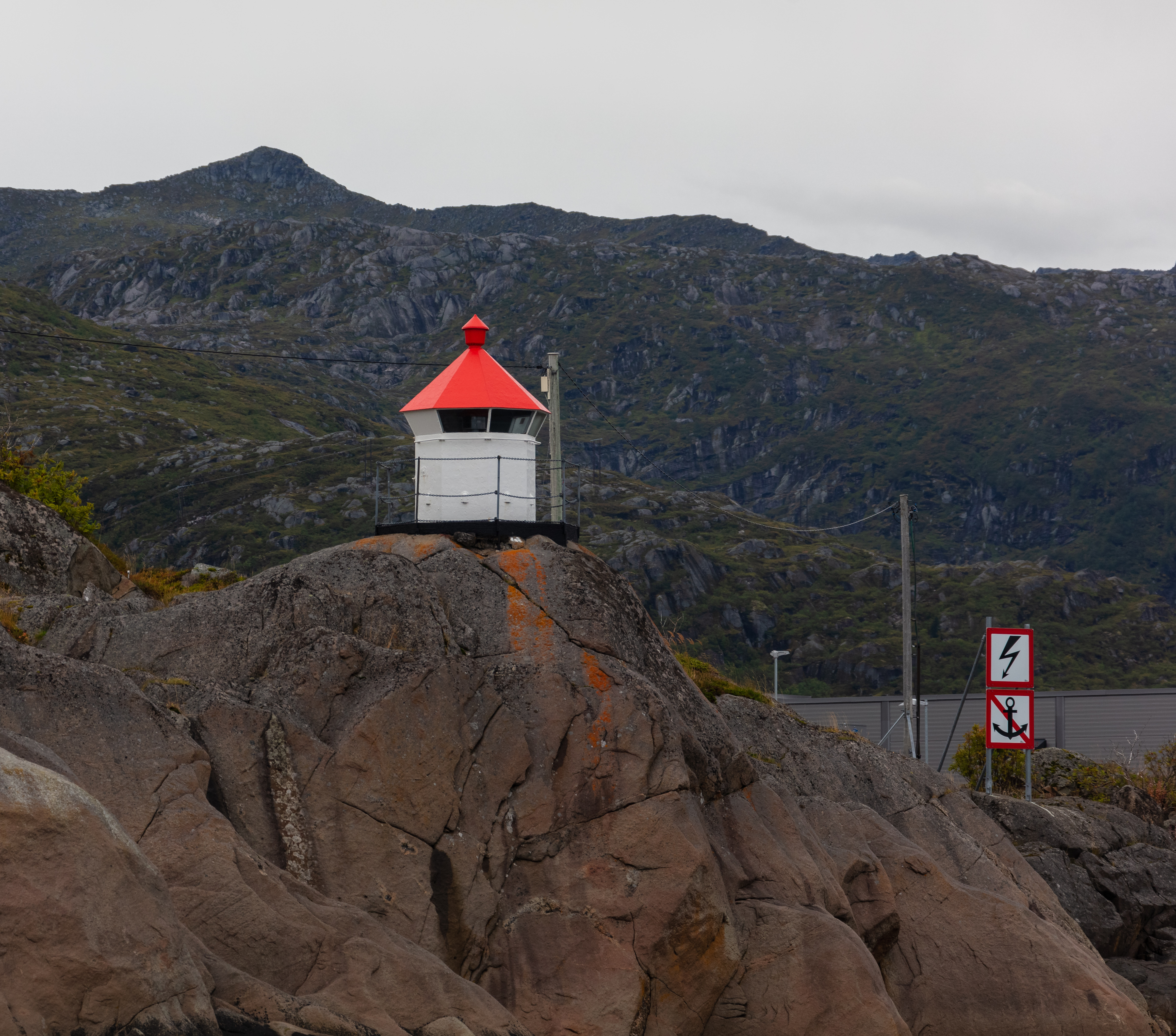 Lighthouse in Svolvær, Lofoten, Norway